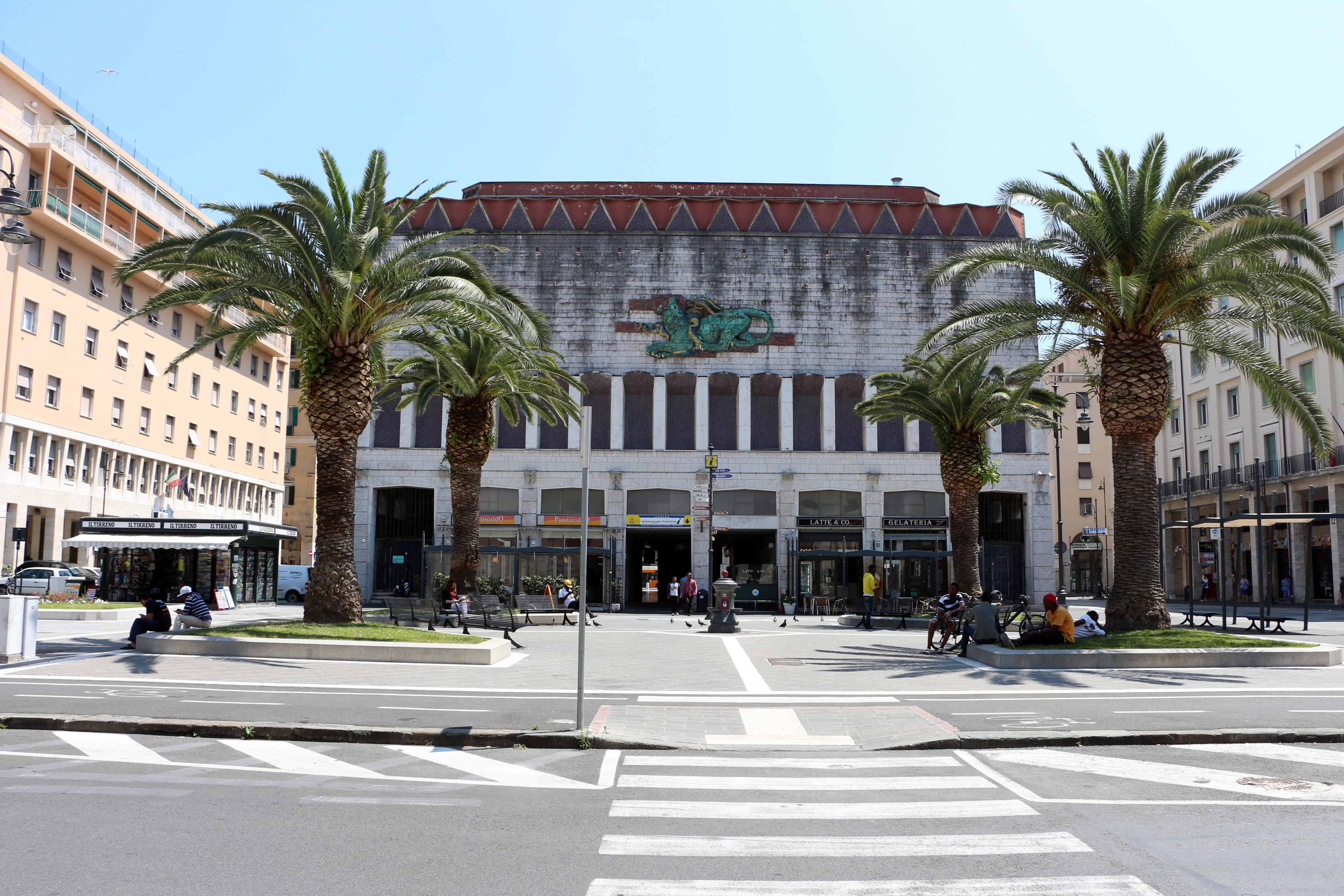 Architecture in Livorno